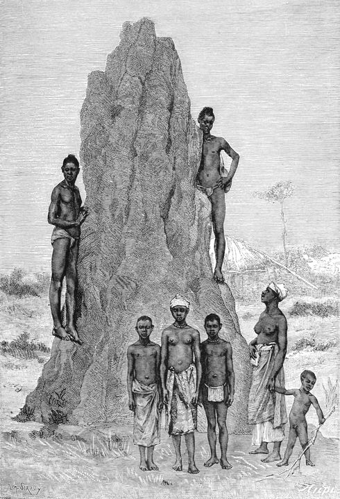 Bujago types and termiks'[termites] nest. (1890-1893)